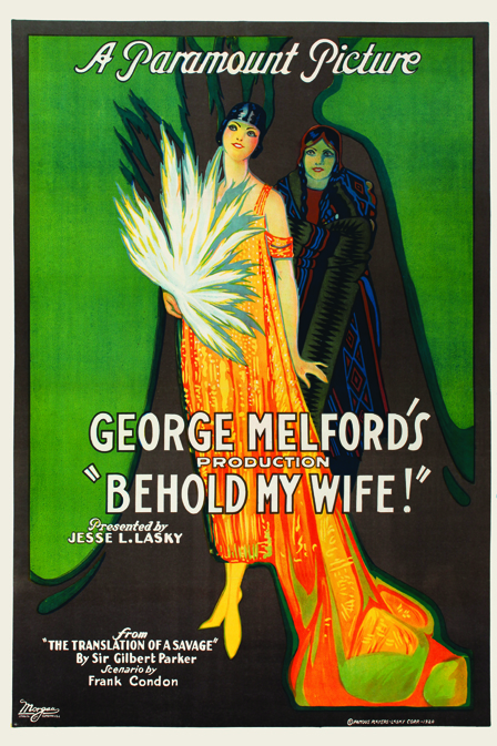 Behold My Wife! is a lost 1920 silent drama film directed by George Melford and starring Mabel Julienne Scott and Milton Sills in a filmization of Sir Gilbert Parker's novel, The Translation of a Savage. Famous Players-Lasky produced the film and Paramount Pictures distributed. This is lobby poster. (Current image is very low resolution, should be replaced with larger image when possible.)